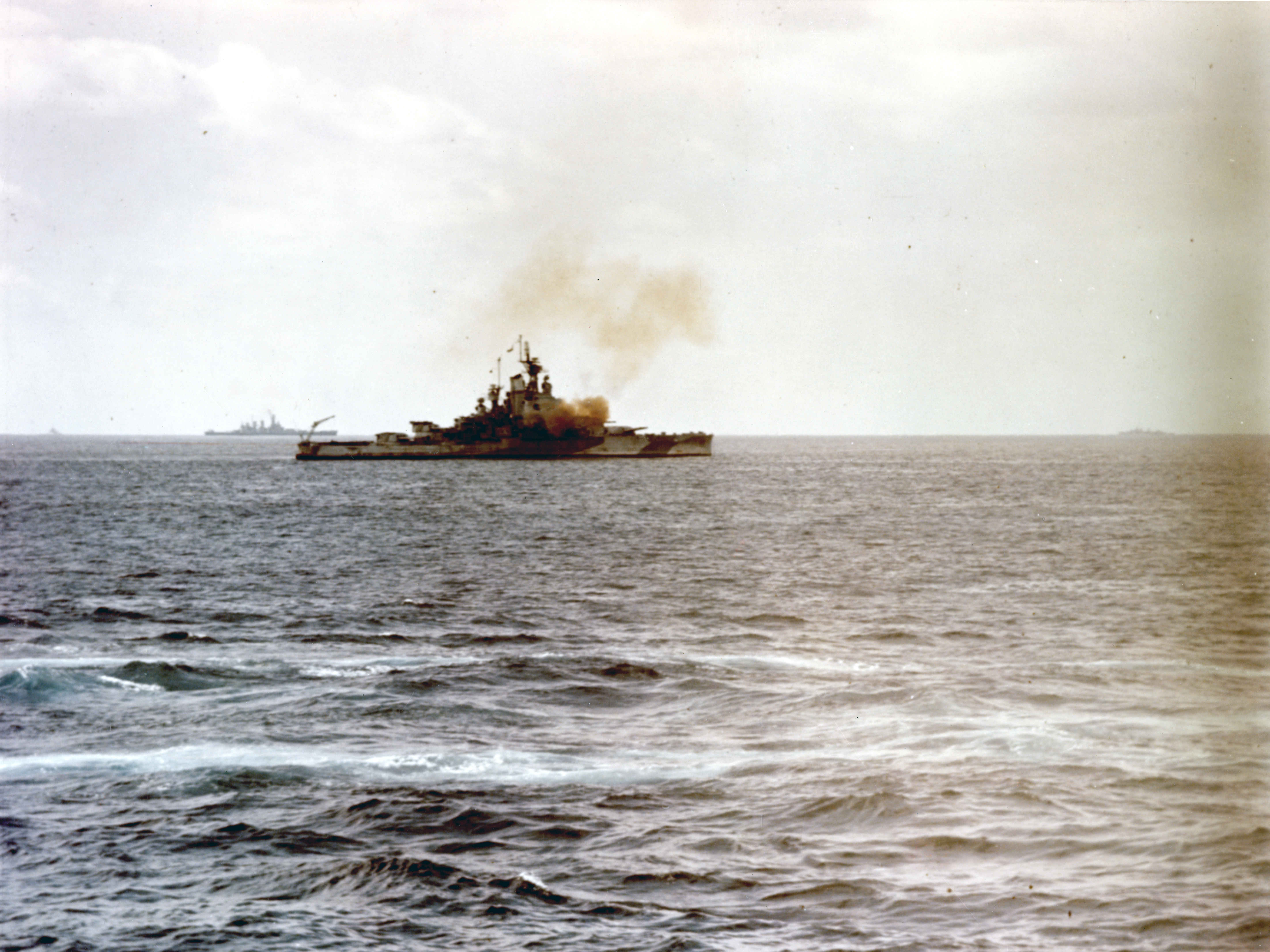 Iwo Jima Operation, 1945: the U.S. Navy battleship USS Nevada (BB-36) bombarding Iwo Jima, 19 February 1945. A North Carolina-class battleship (probably USS Washington, BB-56) is in the left distance.